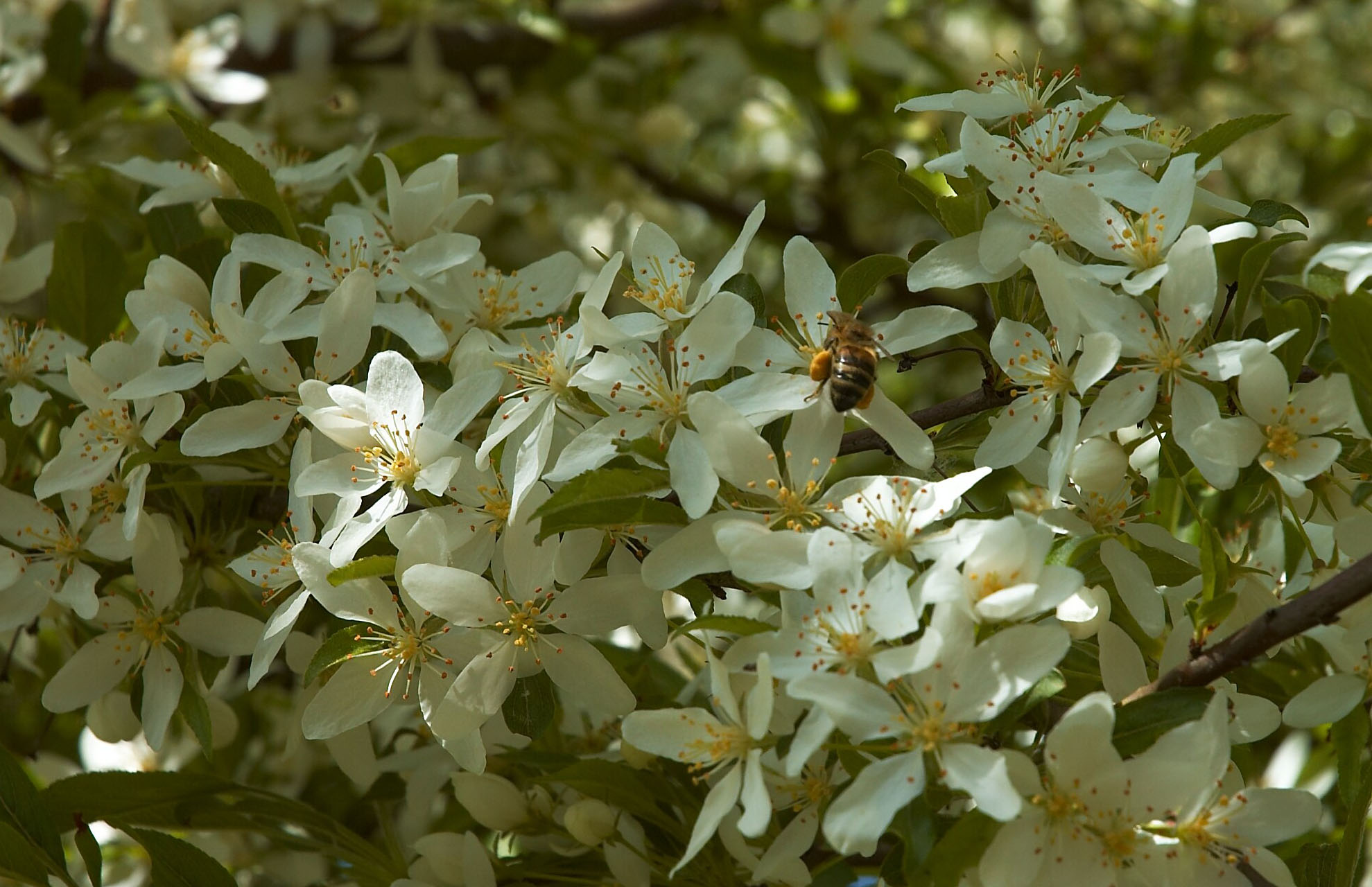 Flowering Malus toringo var. sargentii, sieboldii Other photos of the same tree